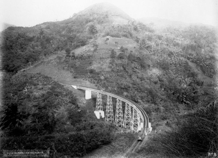 Railway bridge across the Ciherang river between Malangbong and Cipeundeuy